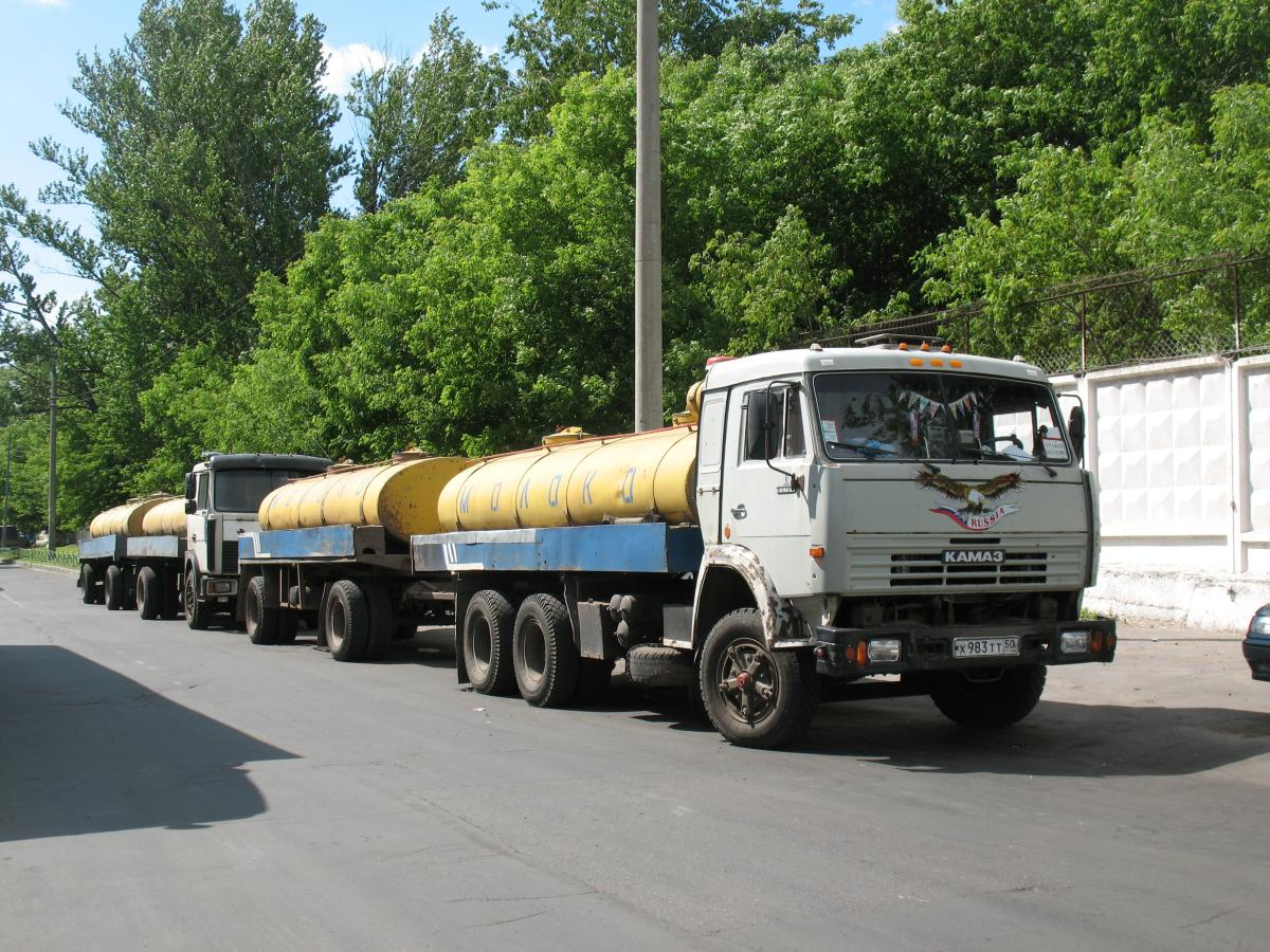 KamAZ tank rigid truck towing a trailer in Tcaritsinskiy milk plant in Moscow